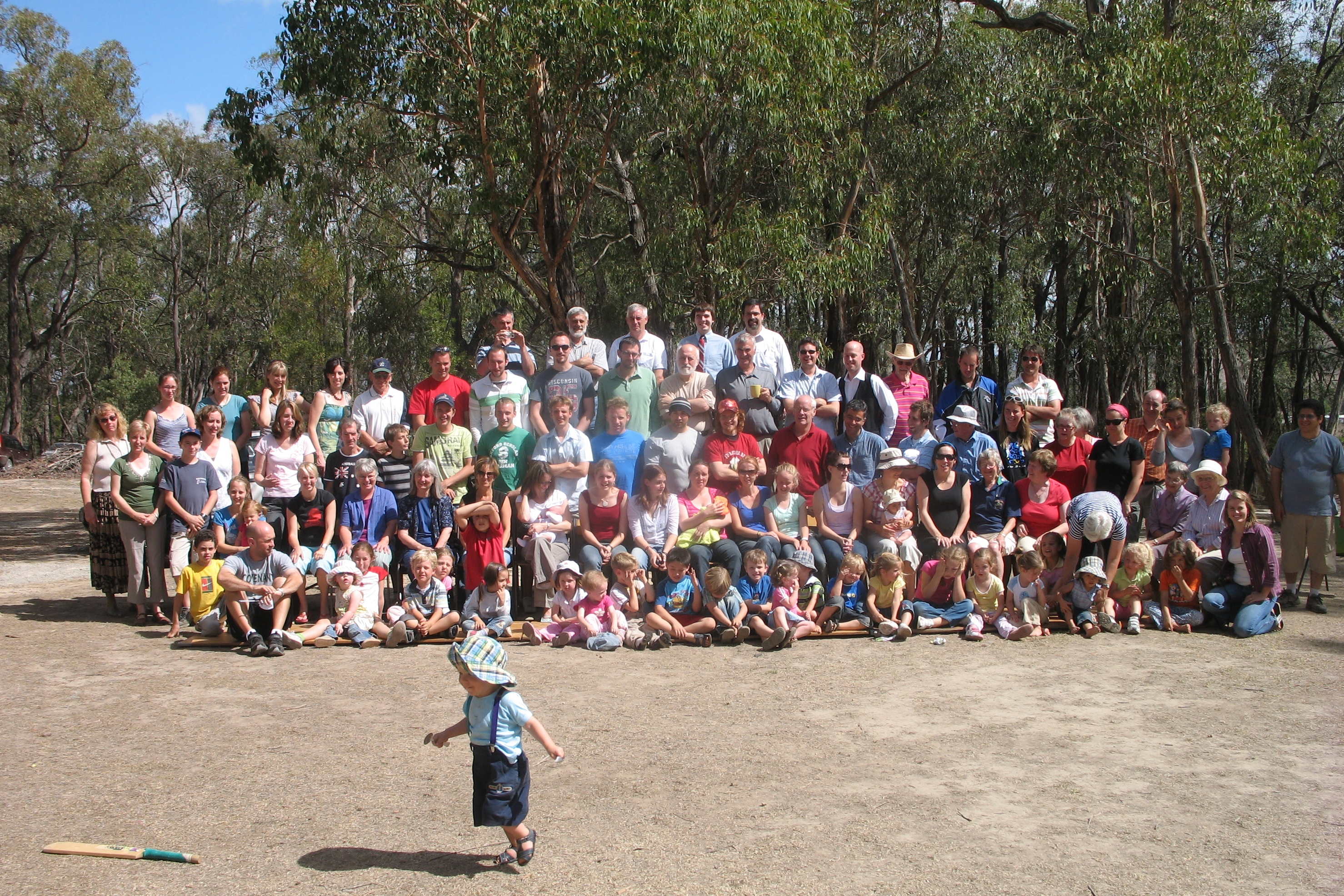 Family conference of the Reformed Presbyterian Church of Australia, held near Dixons Creek, Victoria.